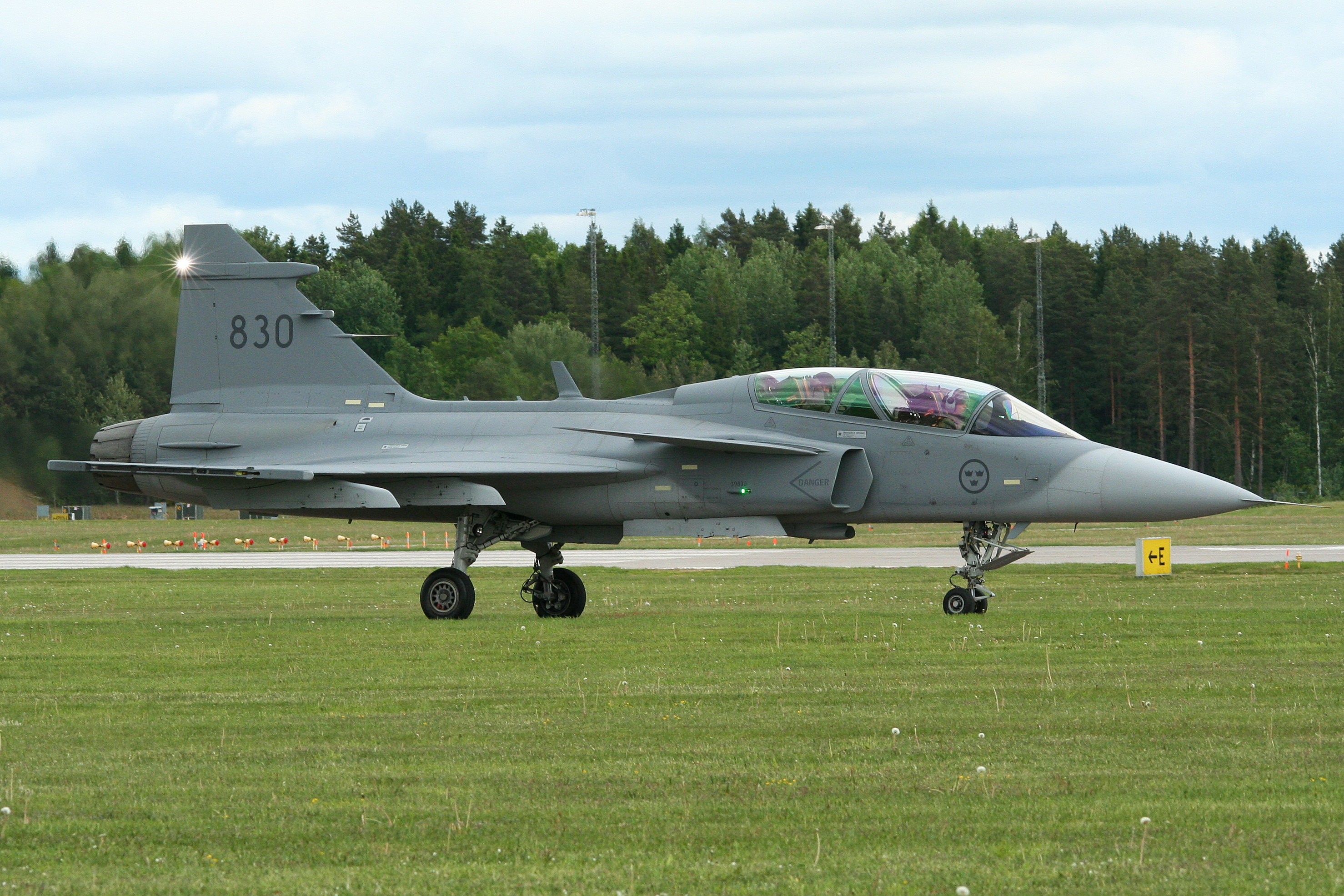 Taxiing back in after taking part in a 4-ship formation put together by F17 fighter unit. msn 39-830. 2012 Malmen Airshow, Sweden. 03-06-2012